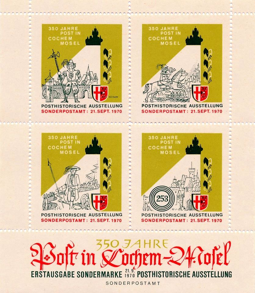 350 years of post office in Cochem-Moselle First issue of special-issue stamp 21.9.1970 Postal history exhibition Special post office